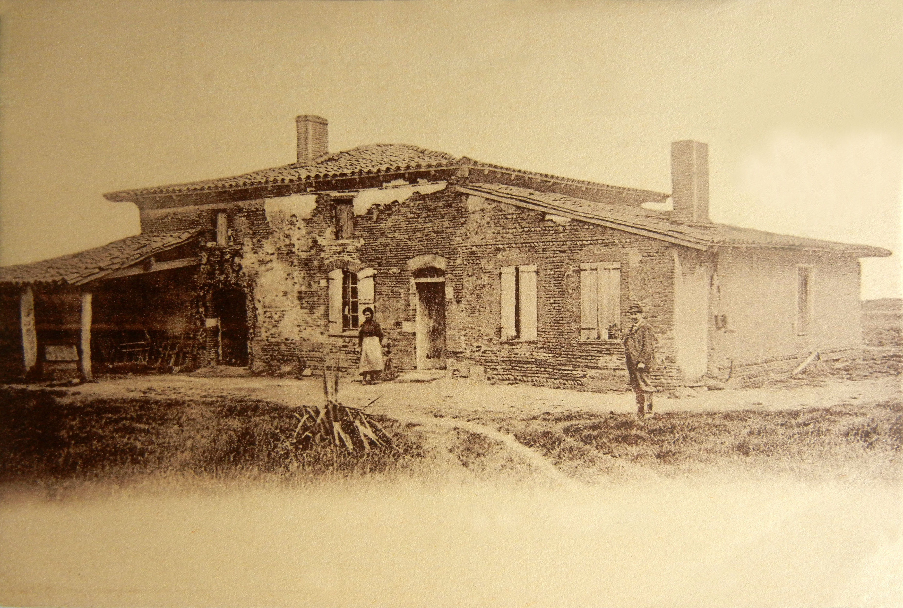 The farm of Mestre in Laurens Pibrac in Haute-Garonne, France (circa 1920): house or was born and lived St. Germaine (1579-1601).